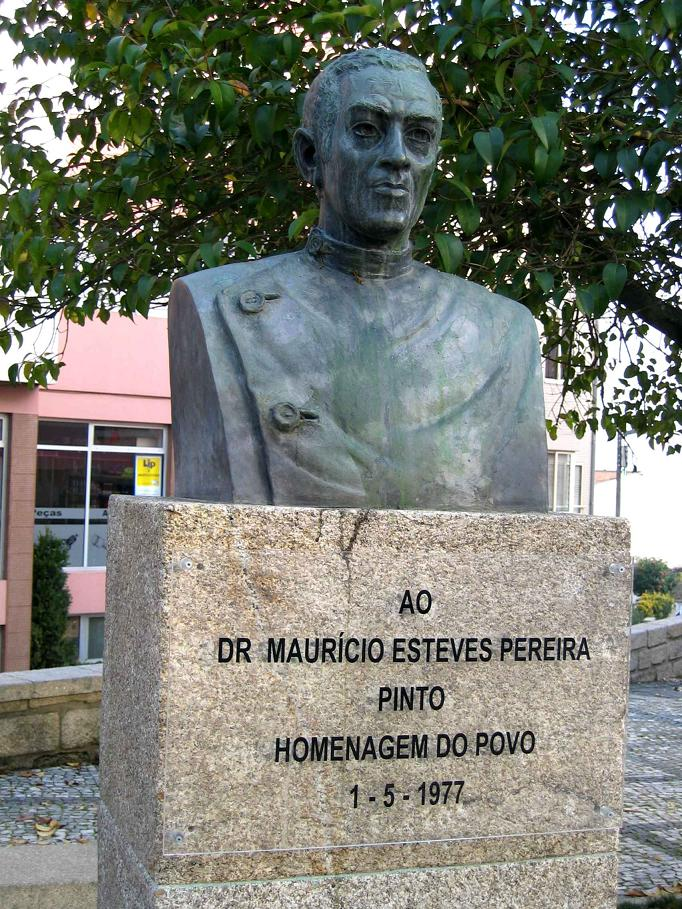 Statue of Dr Maurício Esteves Pereira Pinto - Corujeira Square - Porto - Portugal